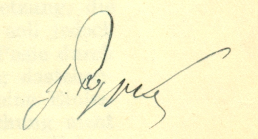 Signature of Jan Rypka.